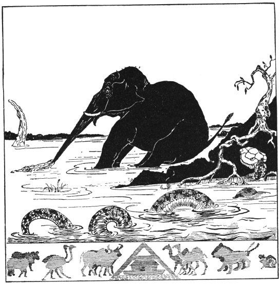 Original woodcut illustration for The Just So story 'The Elephant's Child' by Rudyard Kipling